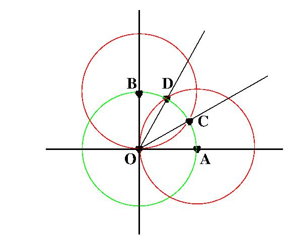 Trisection of angle by geometrical method.